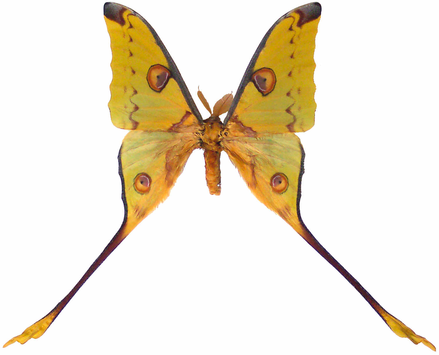 Argema mittrei male mounted - Ambatofinandrahana, Madagascar